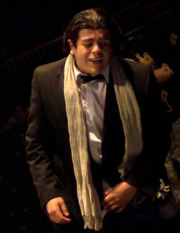 Ricardo Rodriguez at a WWE Raw house show in London on November 11, 2011